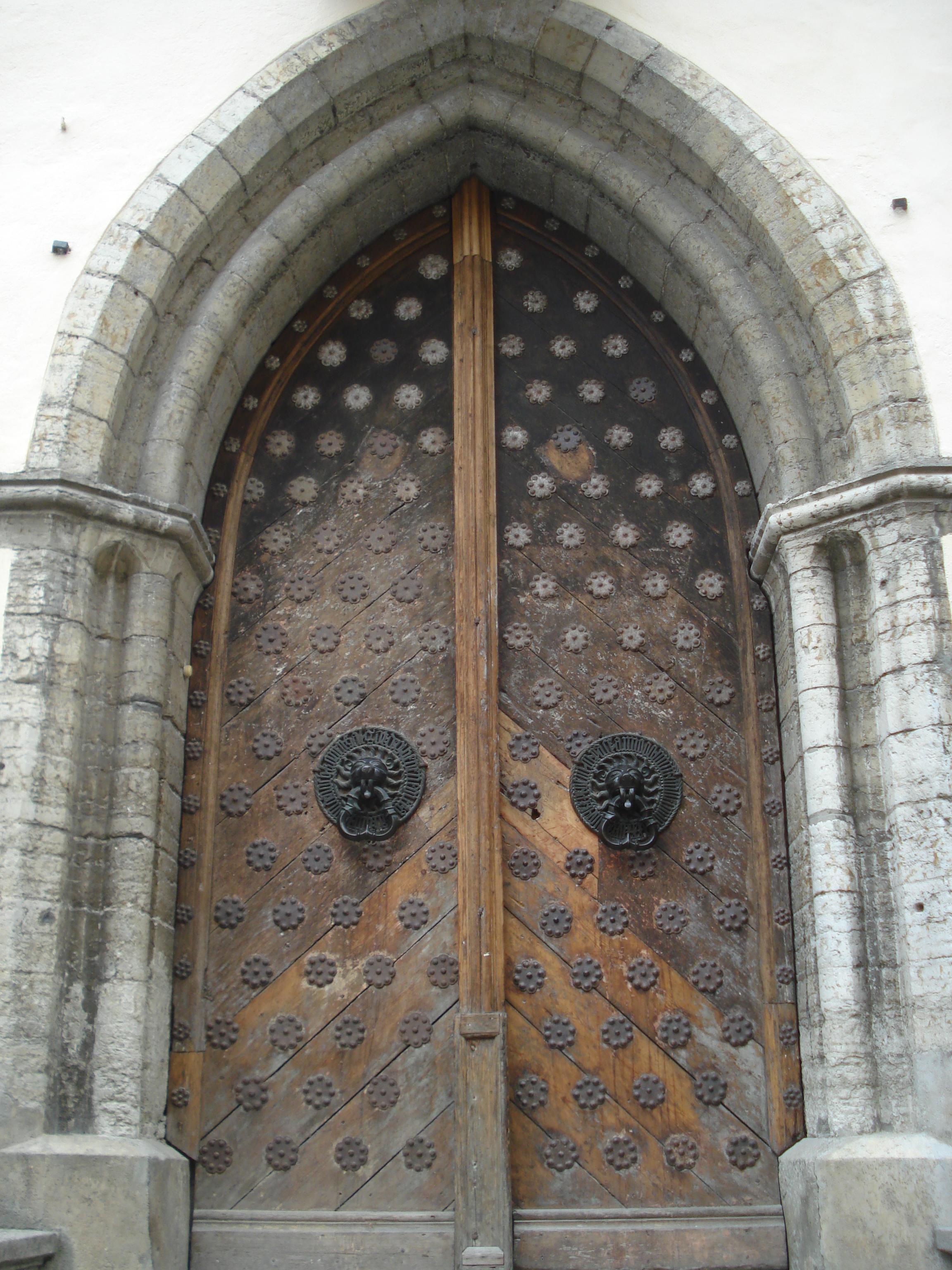 Great Guild Hall in Tallinn (since 1952 has been in the use of Estonian History Museum). Pikk 17. Entrance